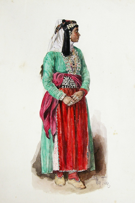 Yezidi Woman in tradiotional clothes